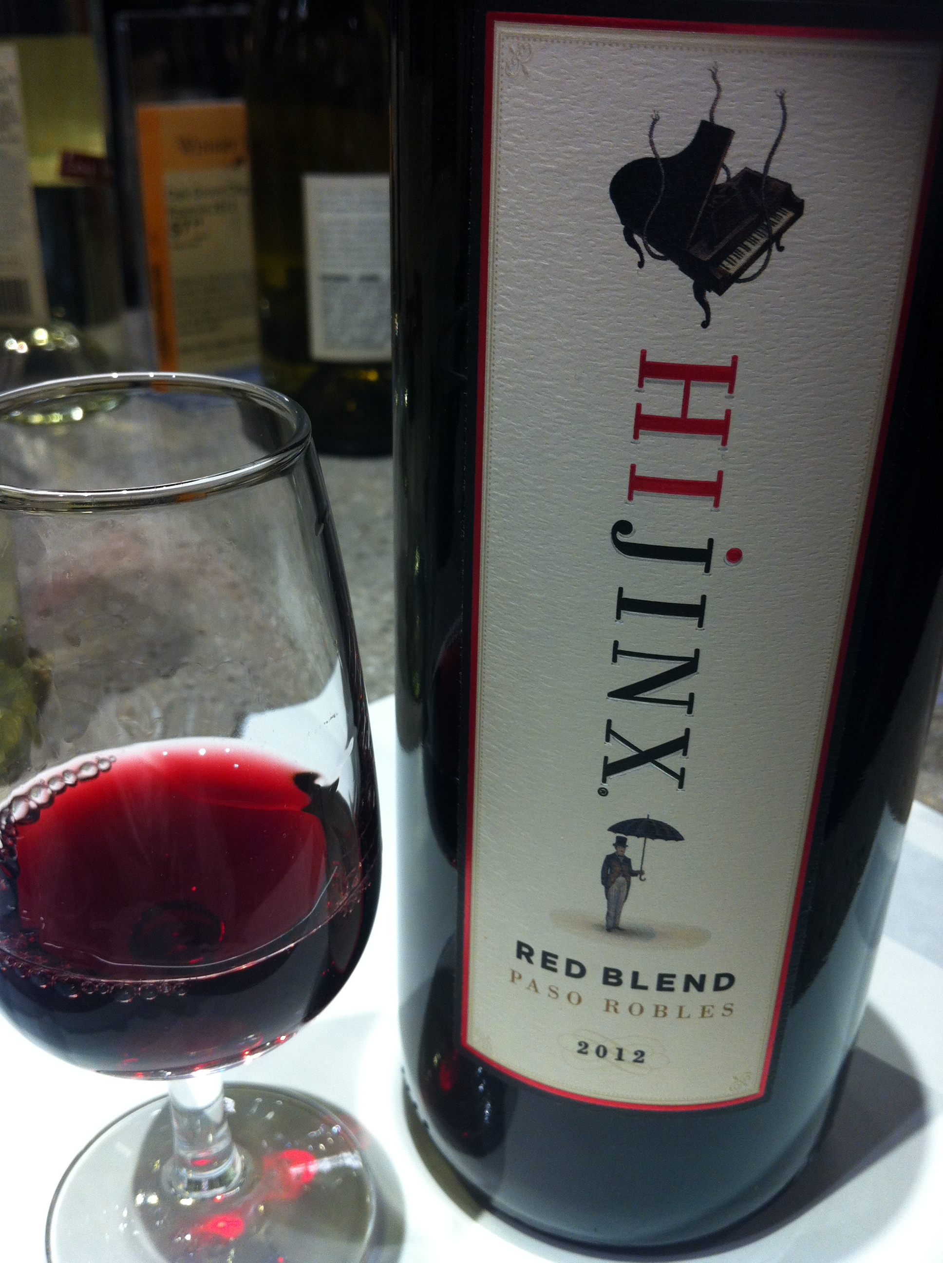 California red blend from the Paso Robles region of the Central coast.